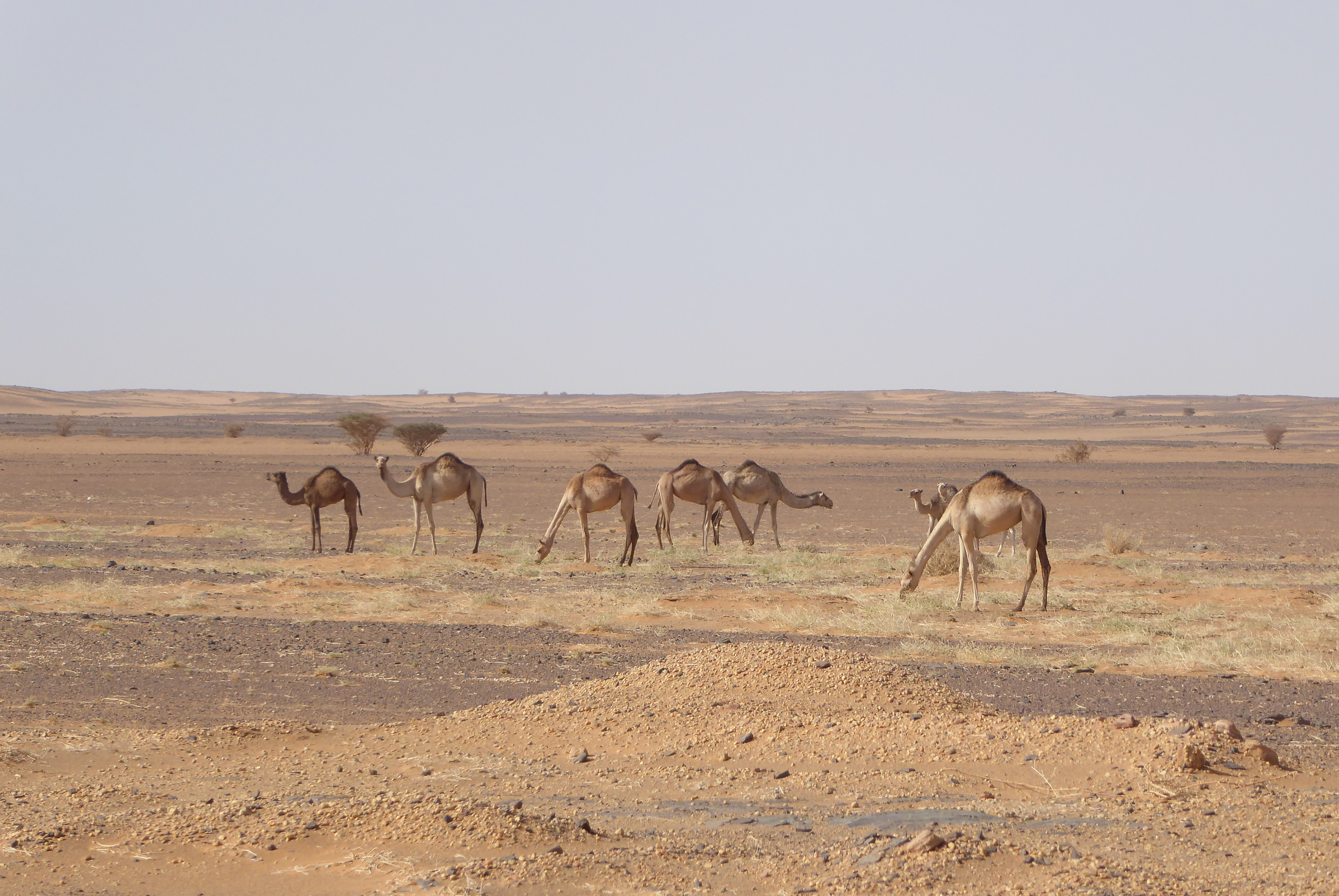 Camels in the nubian desert (5)